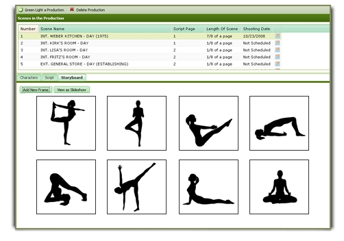 Screenshot of FiveSprockets